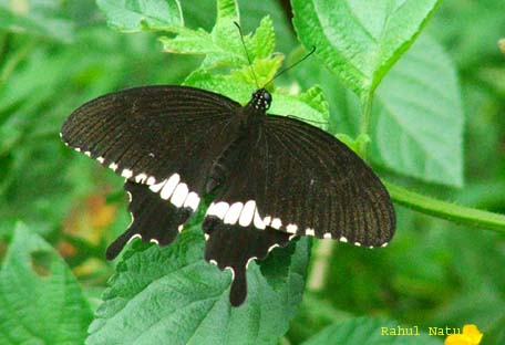 Common Mormon, Papilio polytes male. Photographed by Rahul Natu during his trek to Milam Glacier on 25 Sep 2005. This photo has been donated for use on wikipedia by Rahul Natu and has been uploaded with his permission by Nature Loader.